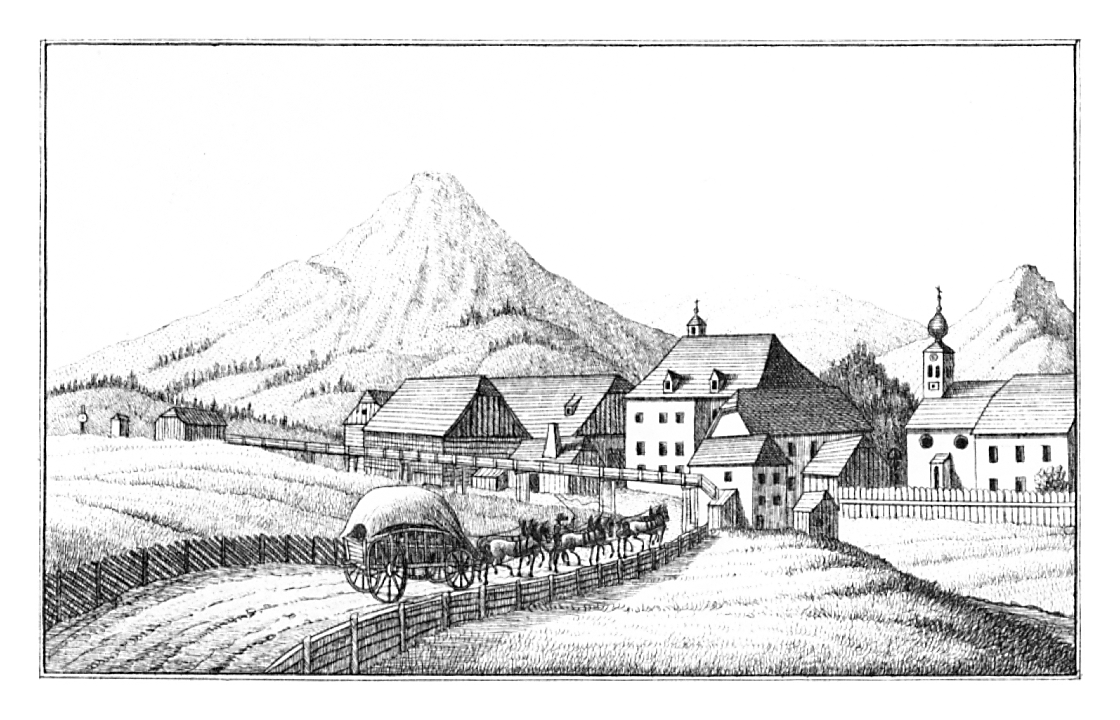 J. F. Kaiser - lithographirte Ansichten der Steyermärkischen Städte, Märkte und Schlösser, Graz 1824-1833 Joseph Franz Kaiser (1786–1859) Alternative names J. F. KaiserDescriptionAustrian printer and editorDate of birth/death 11 March 1786 19 September 1859Location of birth/death Graz (Styria) GrazAuthority control : Q1499963 VIAF: 30629353 ISNI: 0000 0000 3083 0153 LCCN: n87141671 GND: 129880159 NLP: A24960305 WorldCat creator QS:P170,Q1499963 . Scanprojekt Community Projektbudget 2012 This scan or this PDF-file was created within the GLAM-project Bookscanning, supported by Wikimedia Germany and Wikimedia Austria as a part of the community-project to capture books, documents and pictures which are not eligible to copyright or for which the copyright has expired. This document describes or depicts an object which is located in Austria today. Send requests for uncompressed scans to Hubertl. This work is in the public domain in its country of origin and other countries and areas where the copyright term is the author's life plus 100 years or less. You must also include a United States public domain tag to indicate why this work is in the public domain in the United States. This file has been identified as being free of known restrictions under copyright law, including all related and neighboring rights.